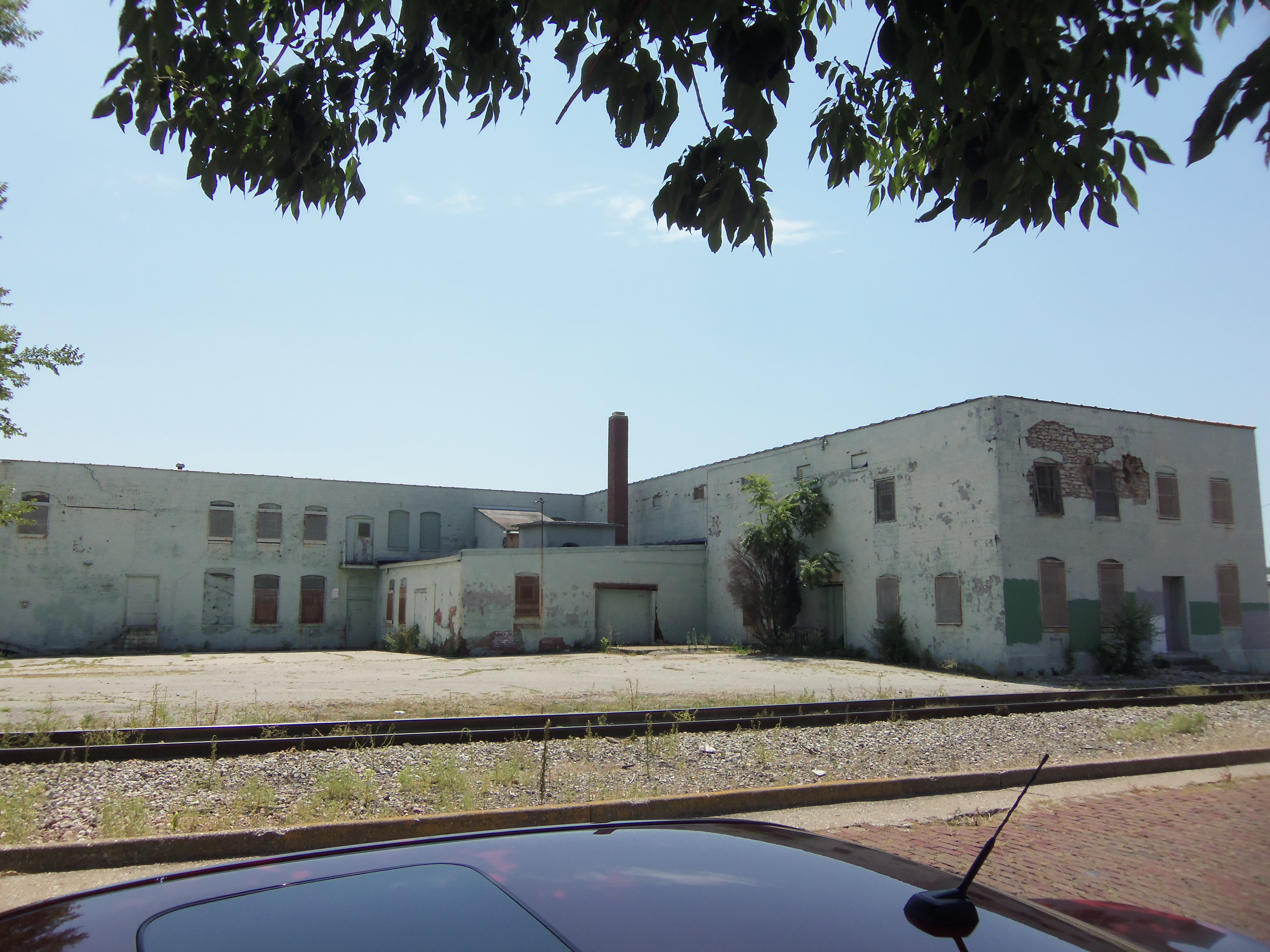 The former Littig Bros Mengel & Klint Eagle Brewery is located in Davenport, Iowa and is listed on the National Register of Historic Places.